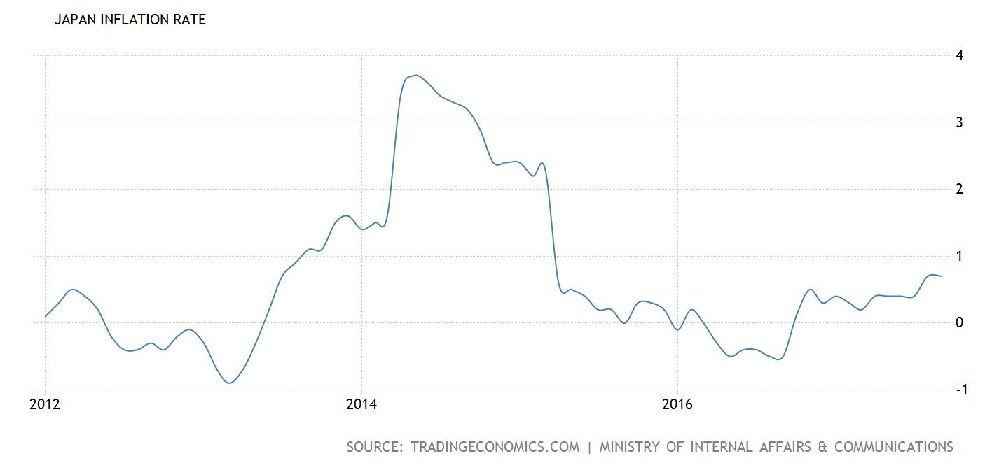 Japan Inflation Rate,2012-2017, Source Trading Economics